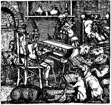 Cat organ